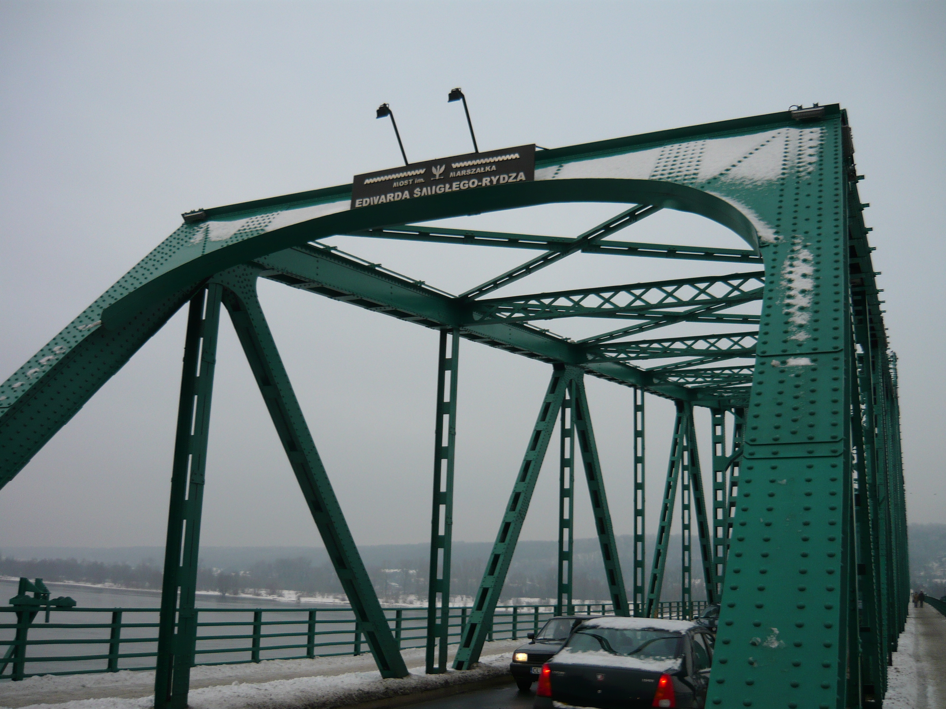 Enter of the marshall Edward Śmigły-Rydz's Bridge in Włocławek with a plaque of his name.